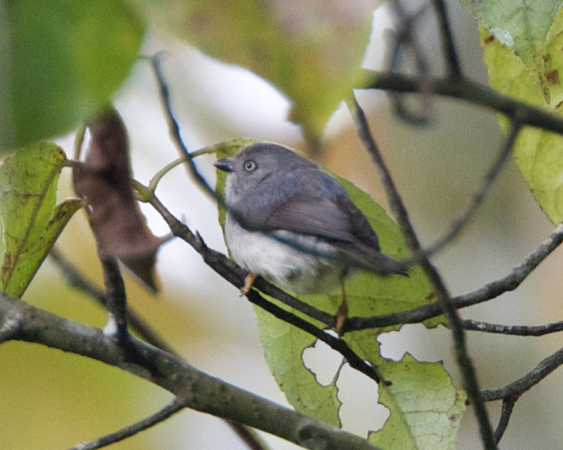 Pygmy Tit Psaltria exilis Indonesian: Cerecet, Cerecet Jawa, Glatik kecil Location : Cibodas Botanical Gardwn , Java, Indonesia 1 st. February 2010 The tail is actually long than it looks on this picture. Just not able to get the whole lot, at least 12 to stay in one place long enough to focus properly Distribution:(actually endemic to Java, confined to montane forests.) 2010 690V1898 pt